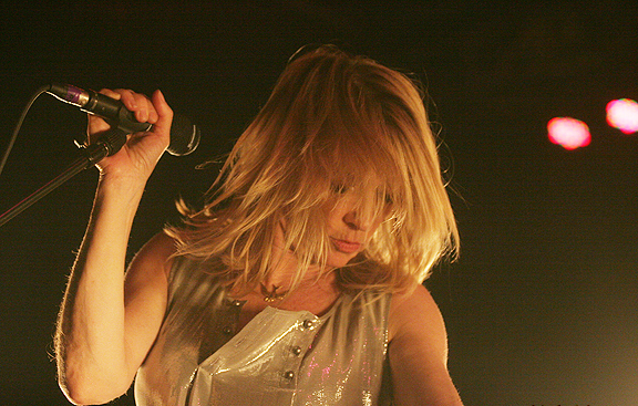 Kim Gordon at the Capitol Hill Block Party, July 25, 2009 in Seattle.